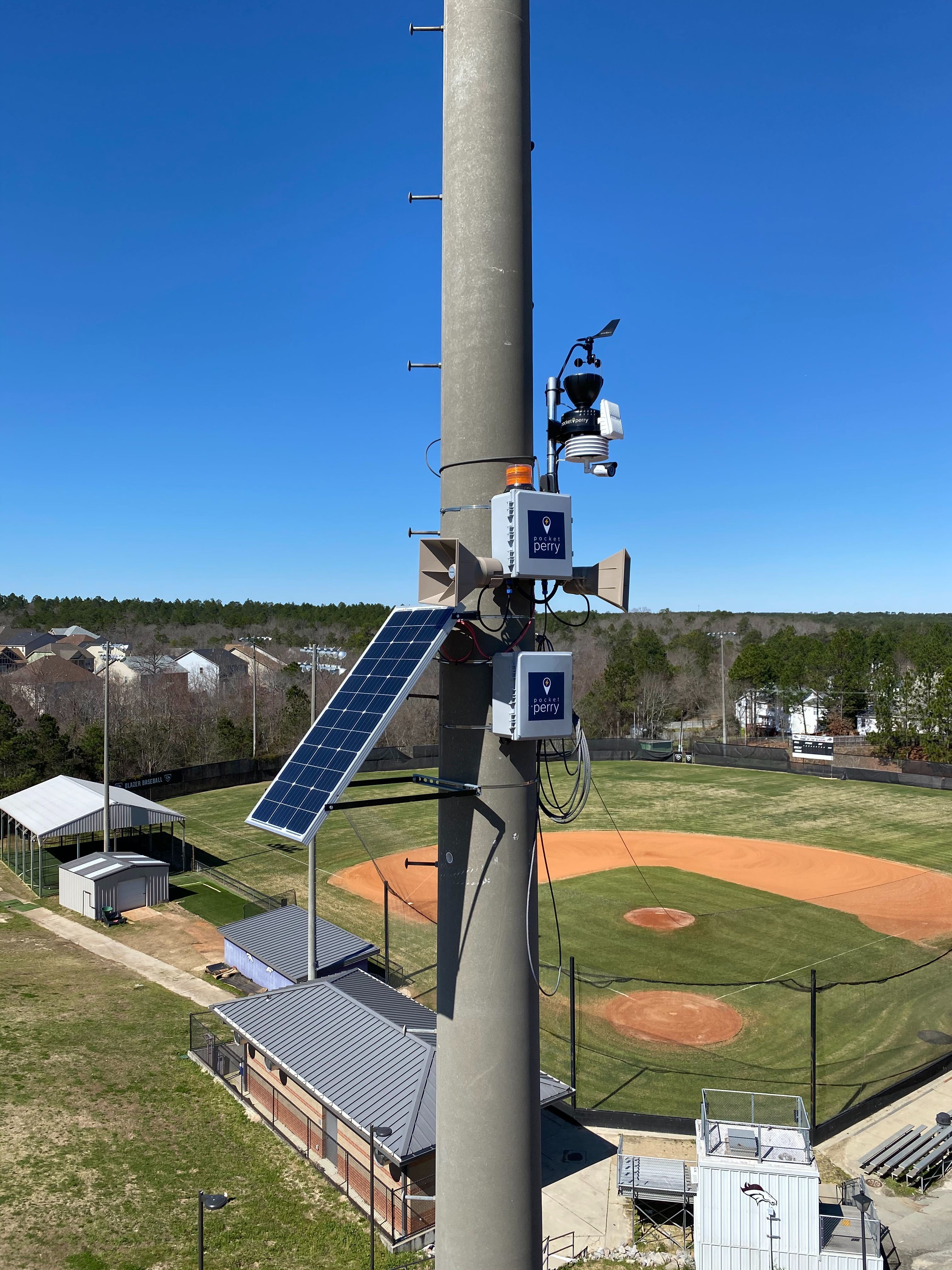 This is a Perry Weather lightning detection and prediction system.